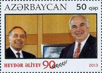 The 90th Ann. of National Leader Heydar Aliyev.